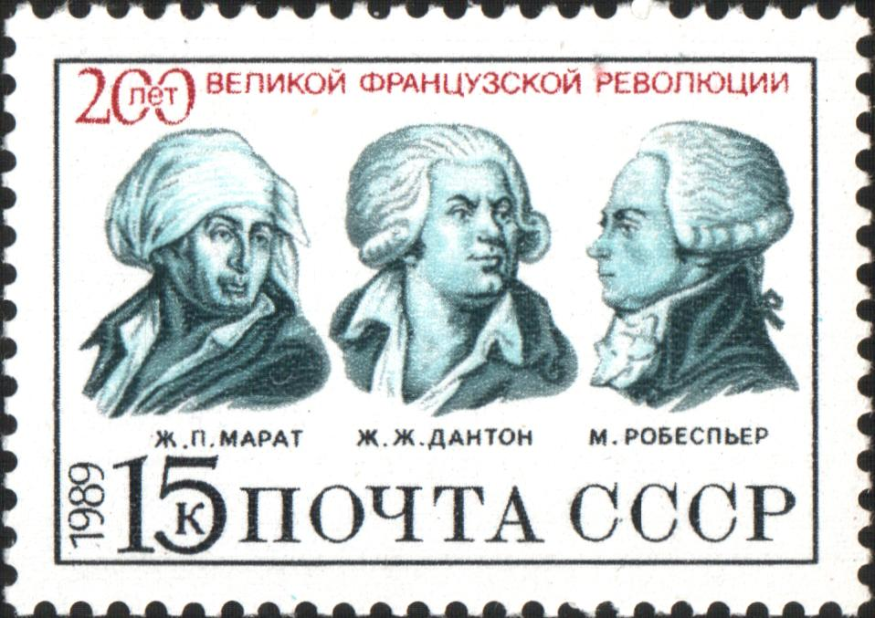 A USSR stamp